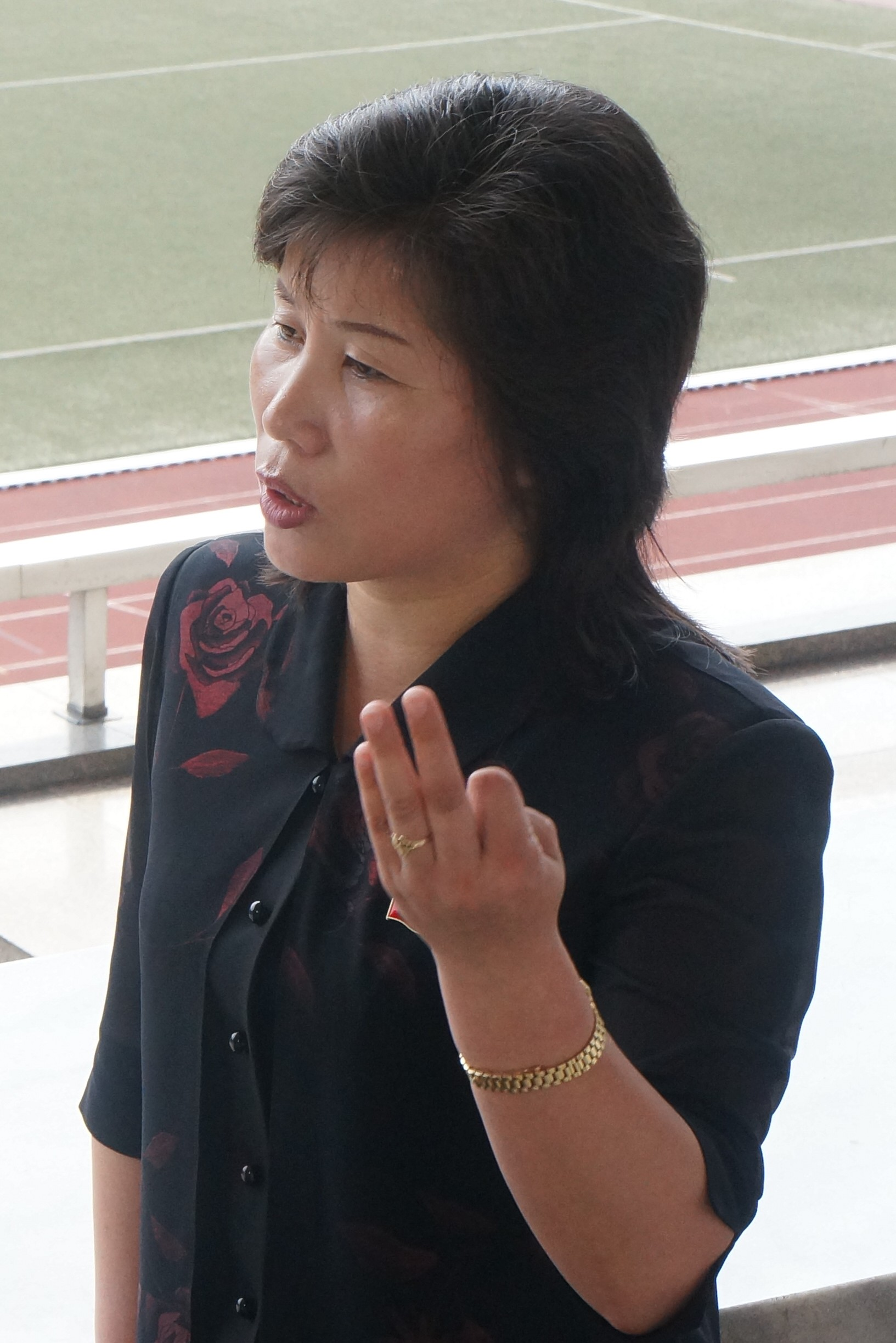 Organizer of Pyongyang Marathon and world title winner of the women's marathon at the 1999 World Championships in Athletics in Seville, Spain. Interview was arranged by Uri Tours and conducted by Tiago Maranhao from Globo's SporTV